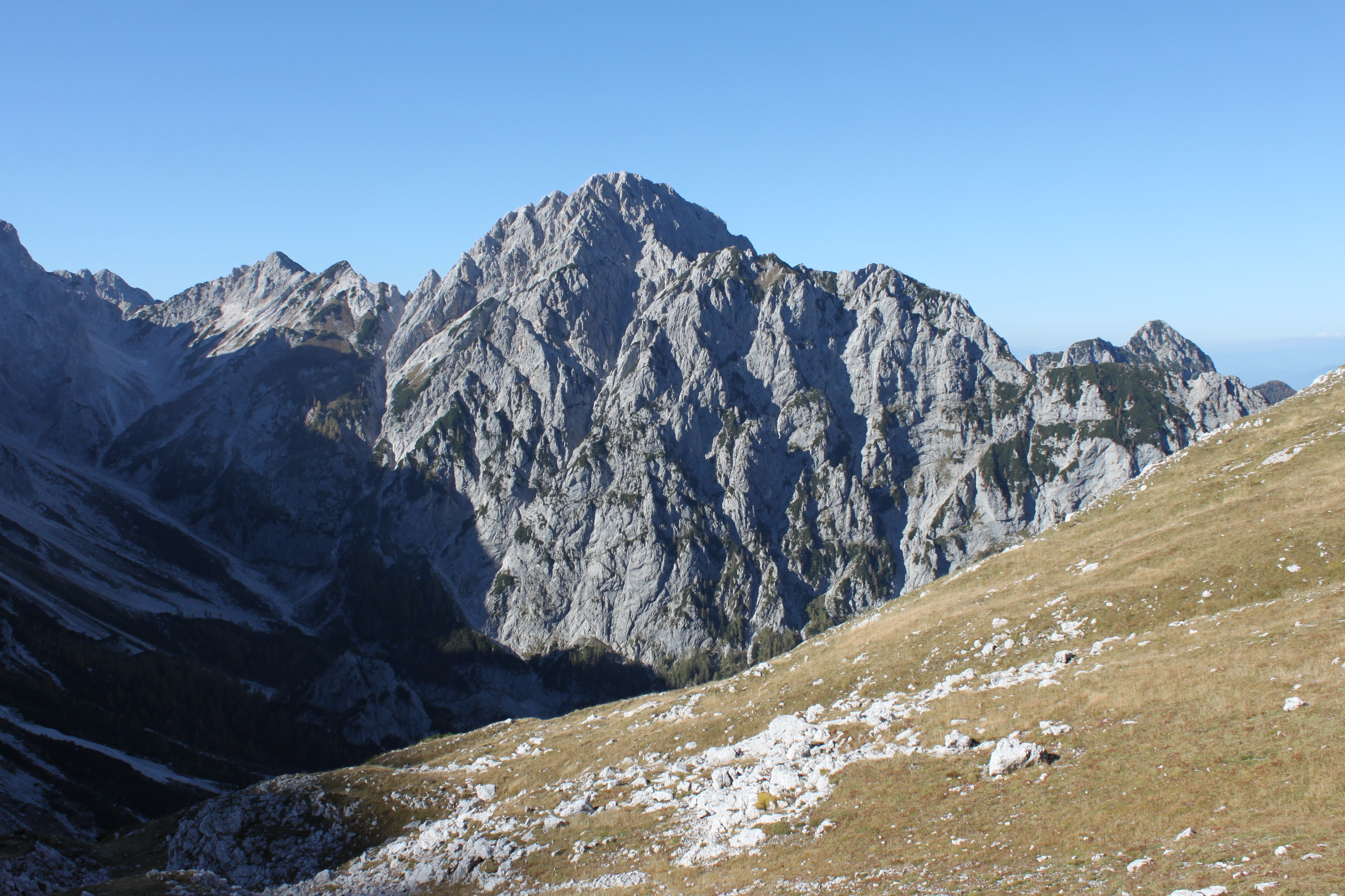 Mrzla gora South seen from Kamniško sedlo